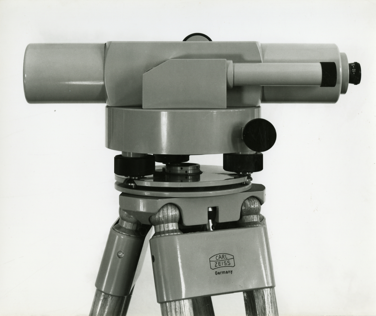 Surveying level Carl Zeiss (Opton) Ni2